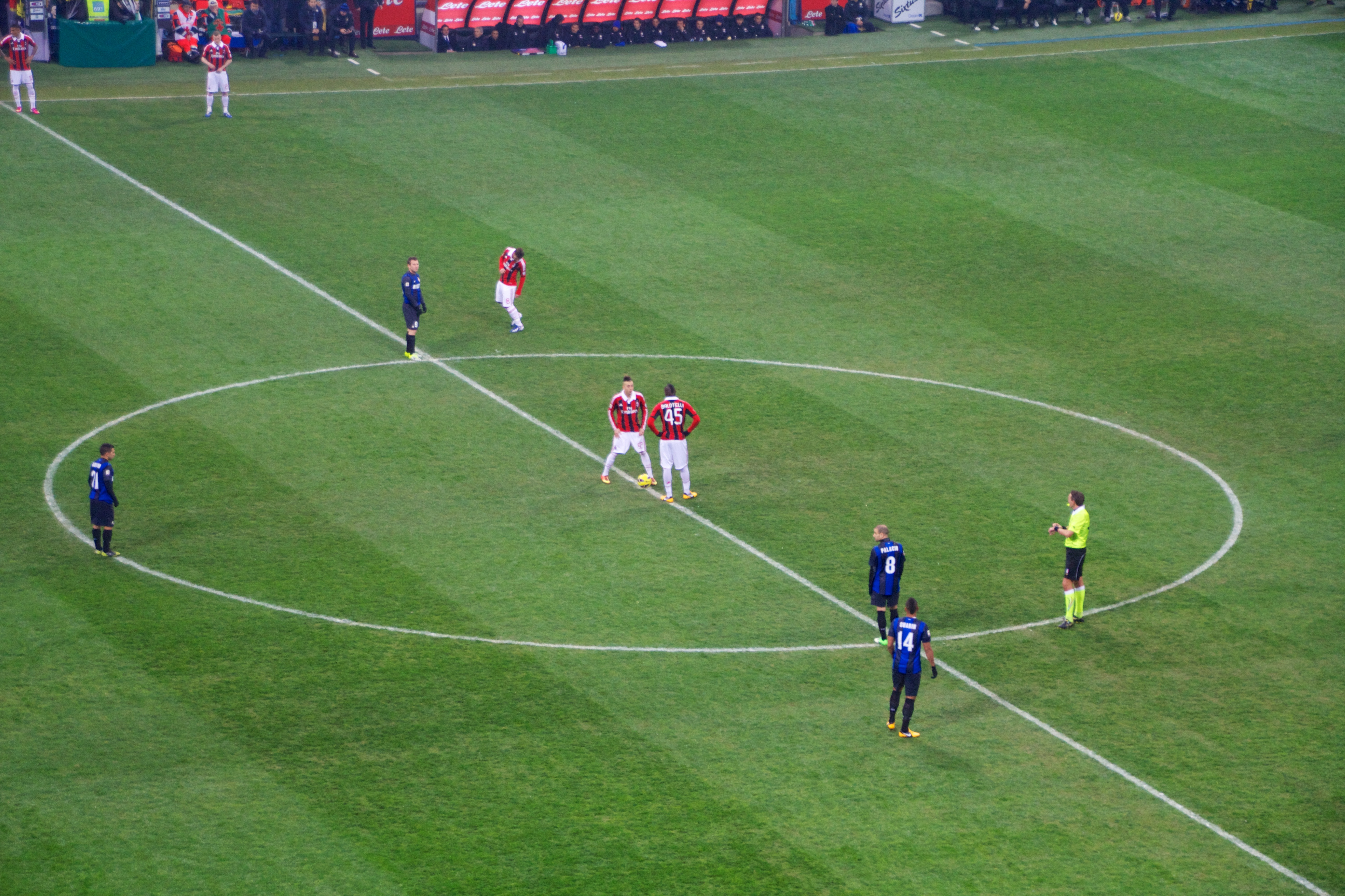 Kick off of FC Internazionale Milano-AC Milan match on 24th february 2013